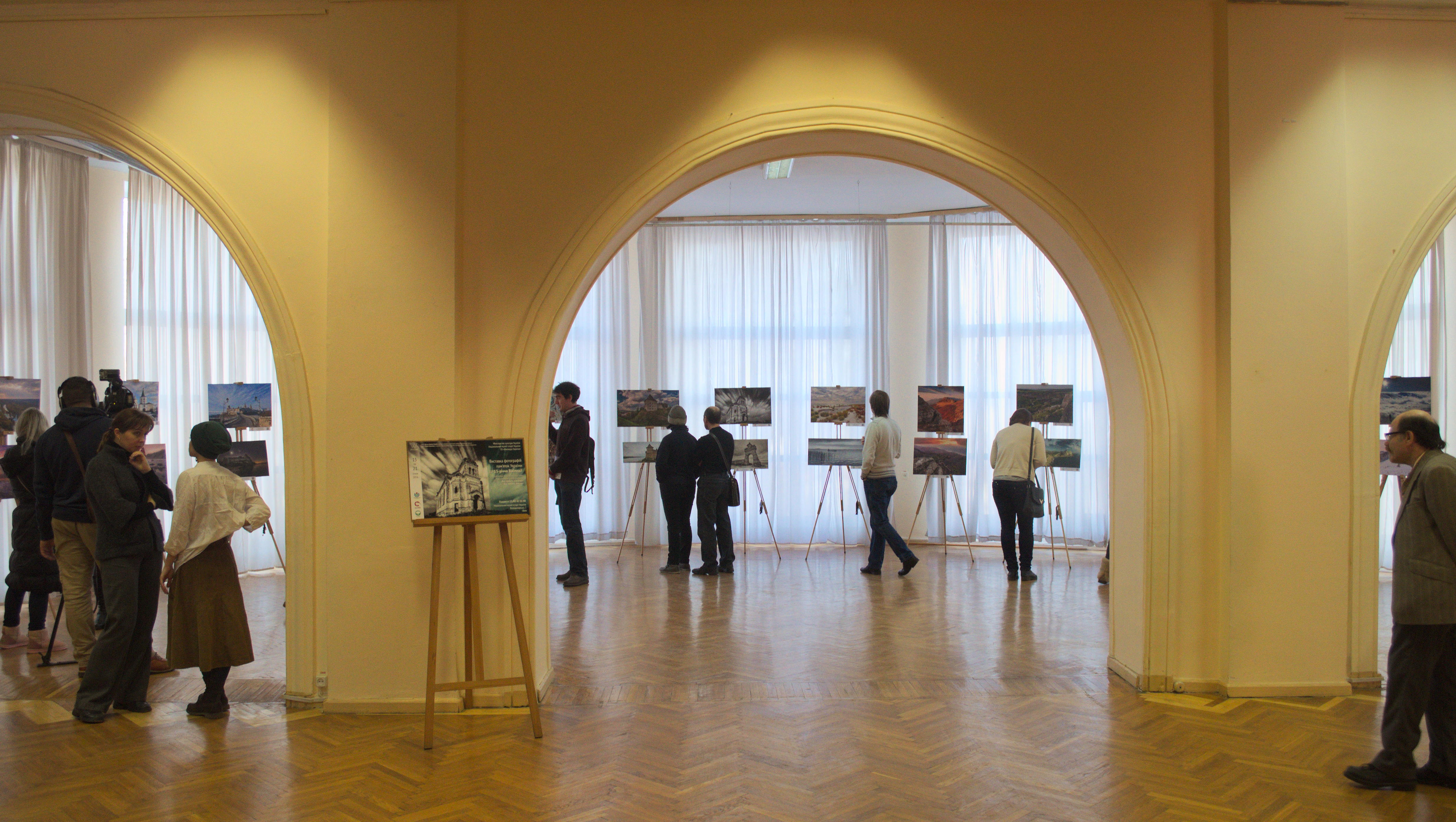 NMIU WLX Exhibition Wiki15